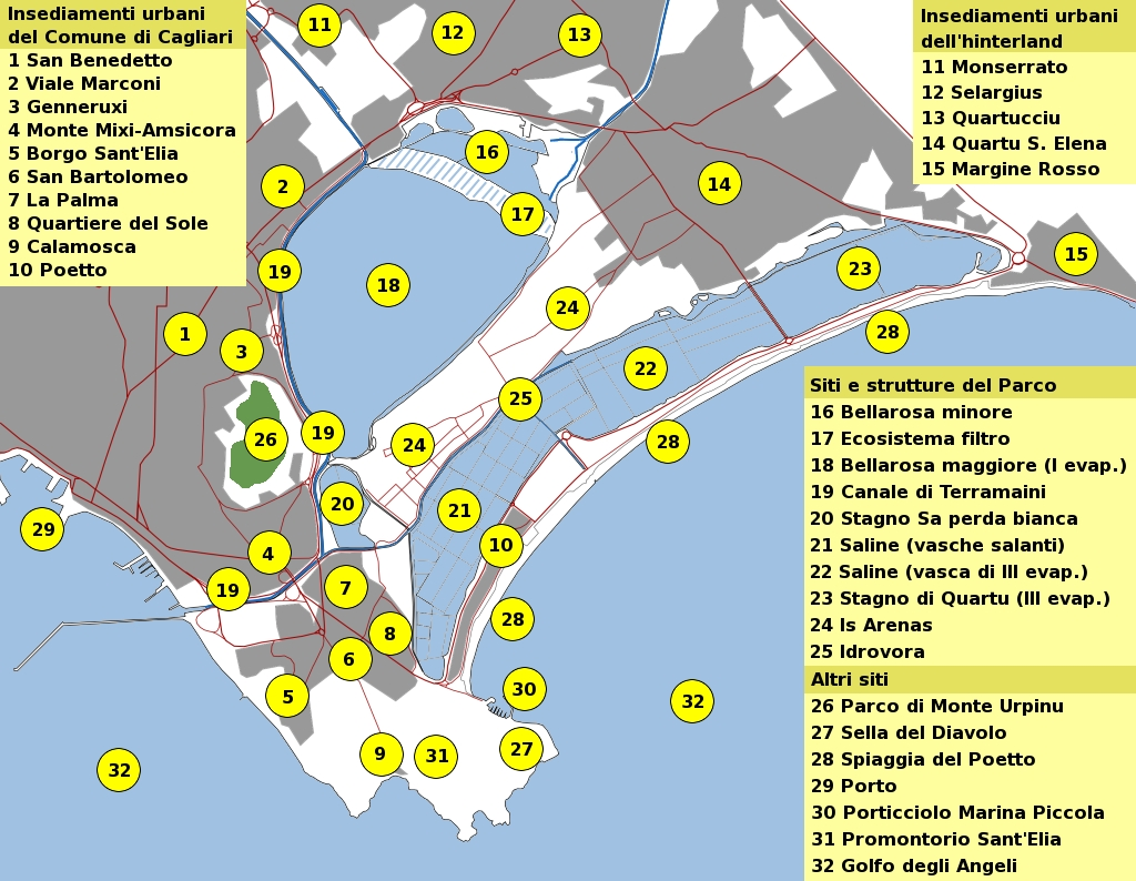 Map of Molentargius Pond, near Cagliari (Sardinia, Italy)